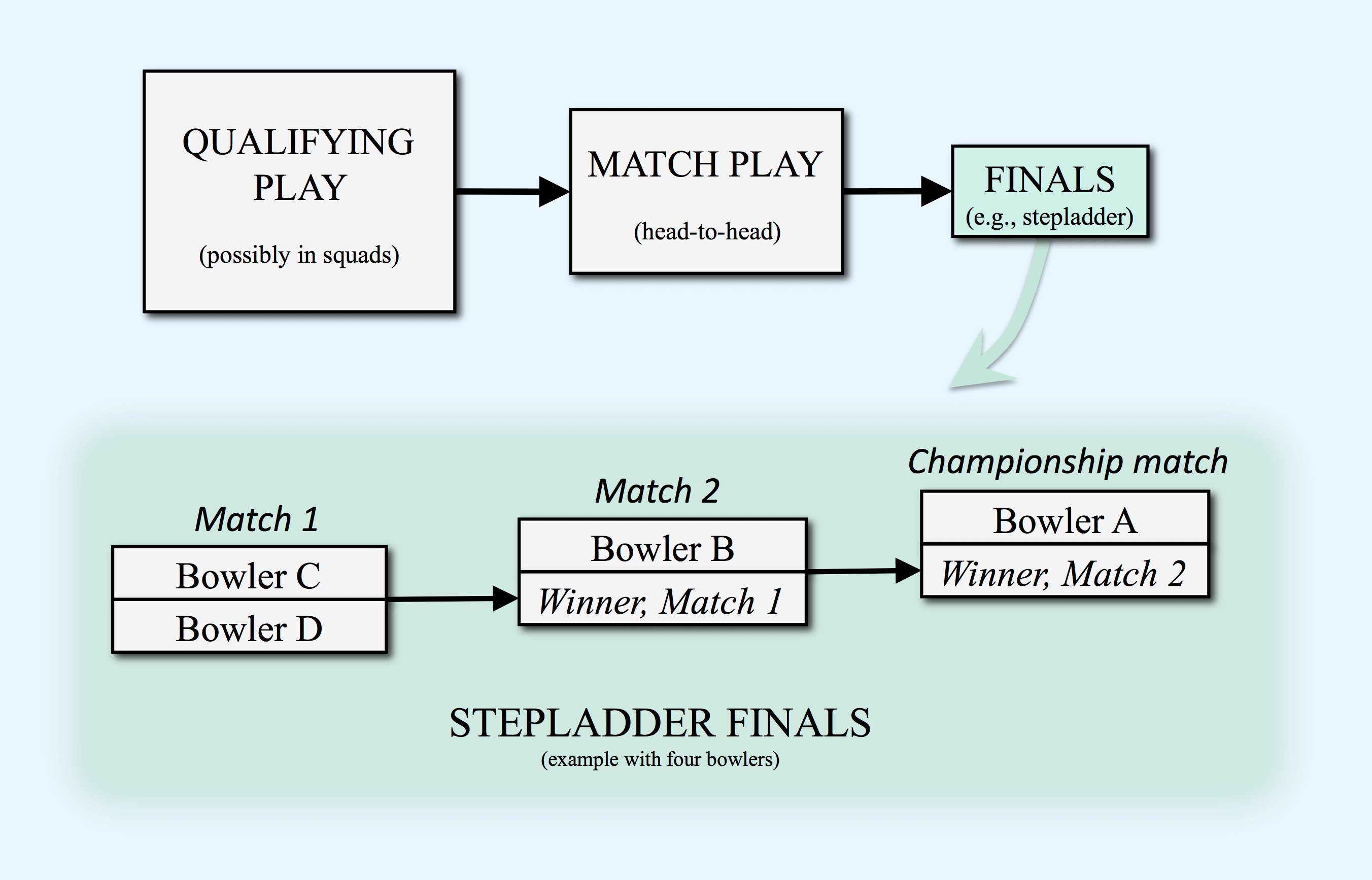 Conceptual chart showing stages of a bowling tournament. Sourcing and explanation: Level 4 / 3. How do these tournaments work?. (2015). Archived from the original on July 15, 2017. Date is estimated based on date of earliest archive.